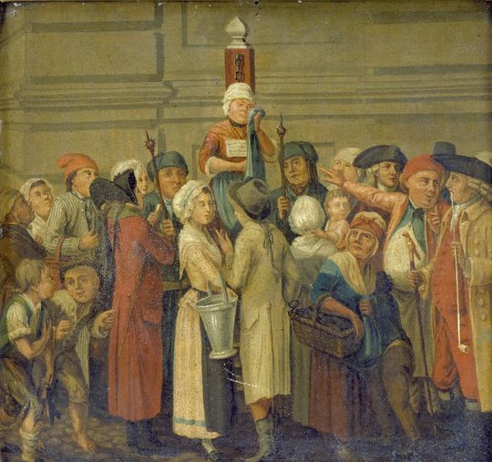 Woman in iron at the "Kag" on Nytorv in Copenhagen, Denmark.